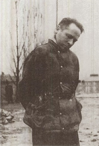 Rudolph Hoess on gallows.